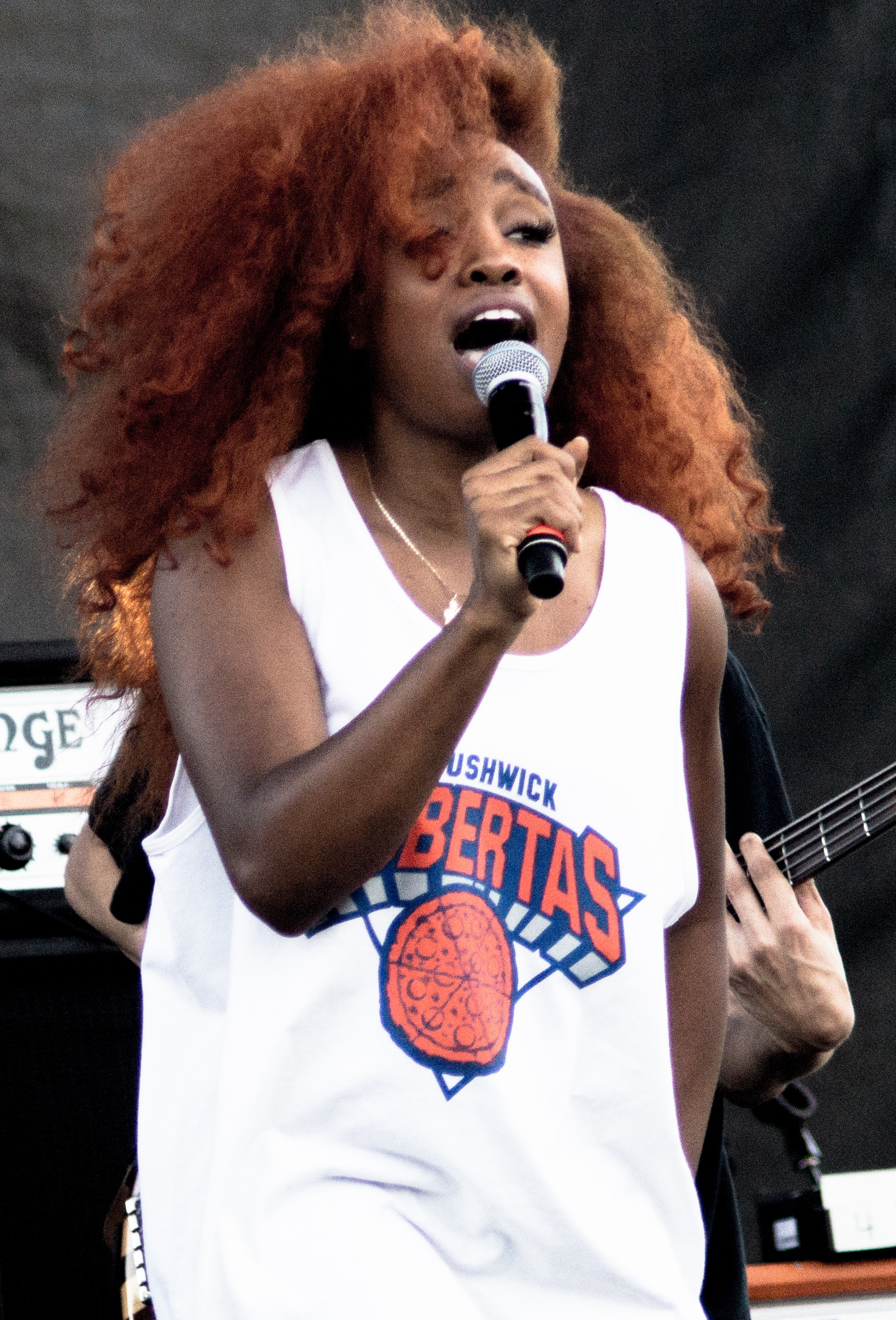 SZA performing at the AfroPunk festival in Brooklyn, New York in 2015.